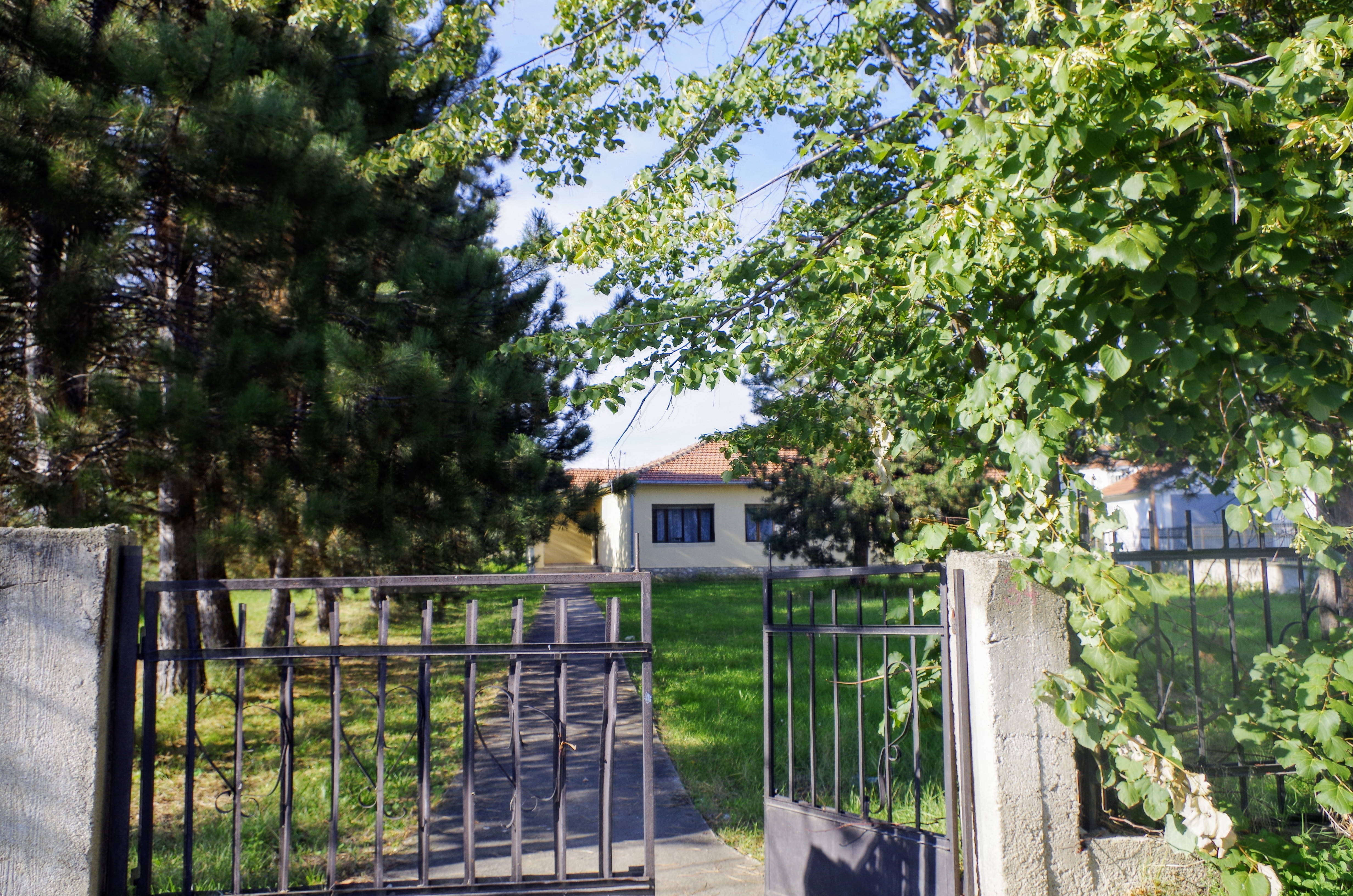 View of the primary school in the village Nakolec